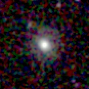 Galaxy NGC 443